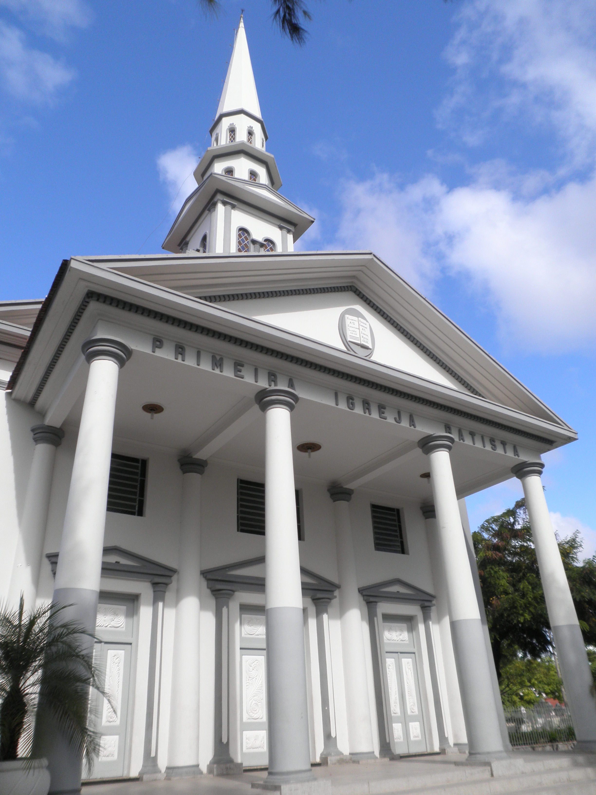 João Pessoa`s First Baptist Church